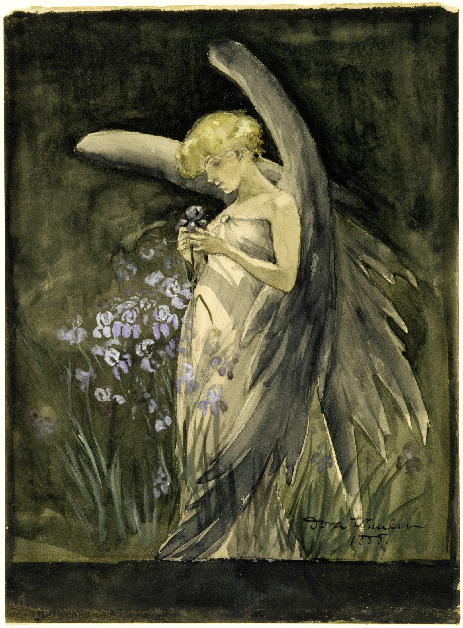 Watercolor; Drawings